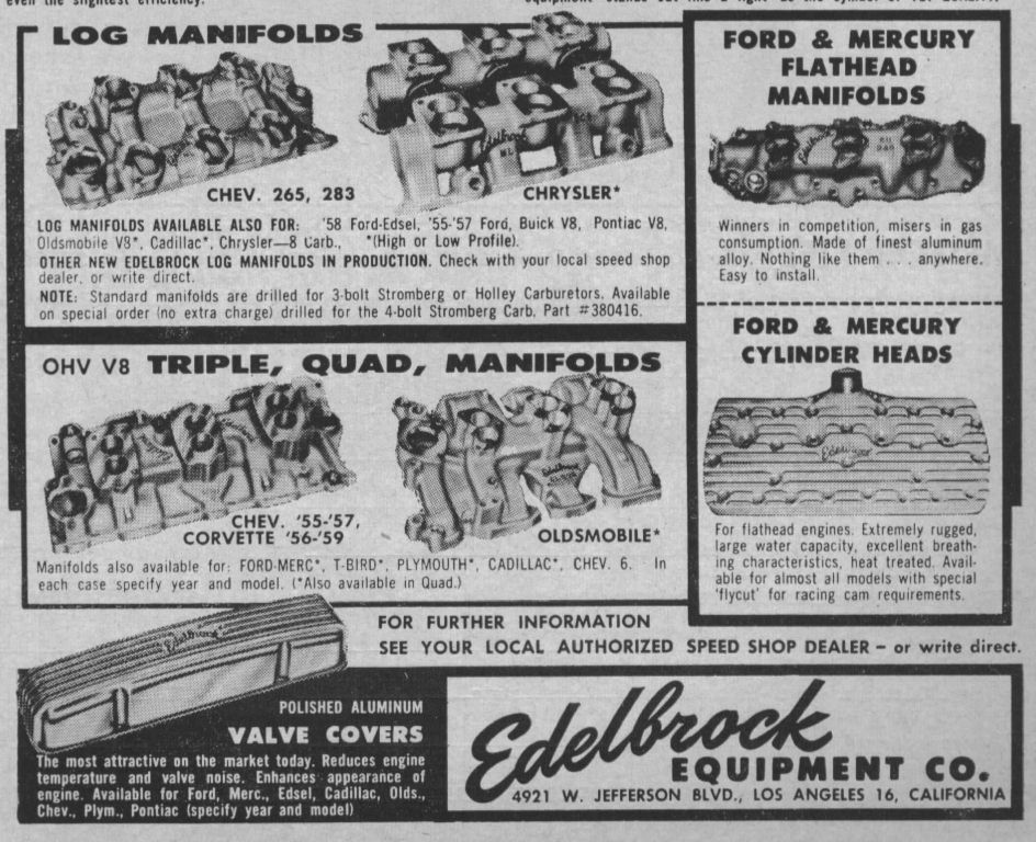 Reference to 'Ford-Edsel' in a 1958 advertisement for parts to fit the FE engine